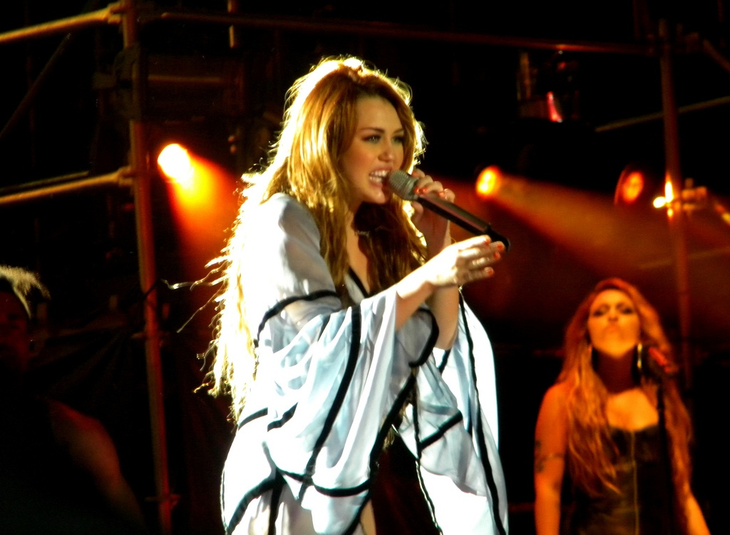 Pop singer Miley Cyrus performing in São Paulo, Brazil as part of her Gypsy Heart Tour in 2011.